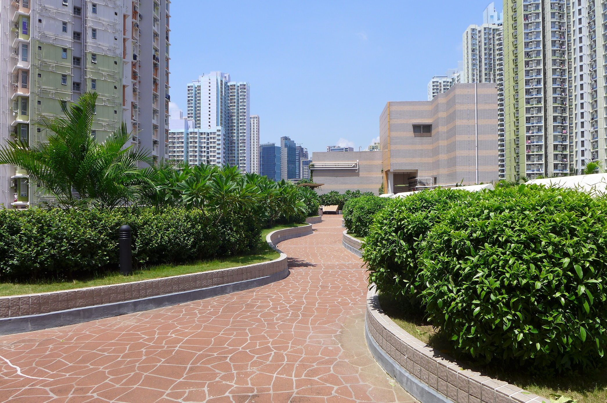 Cheung Sha Wan Estate Indoor Playground